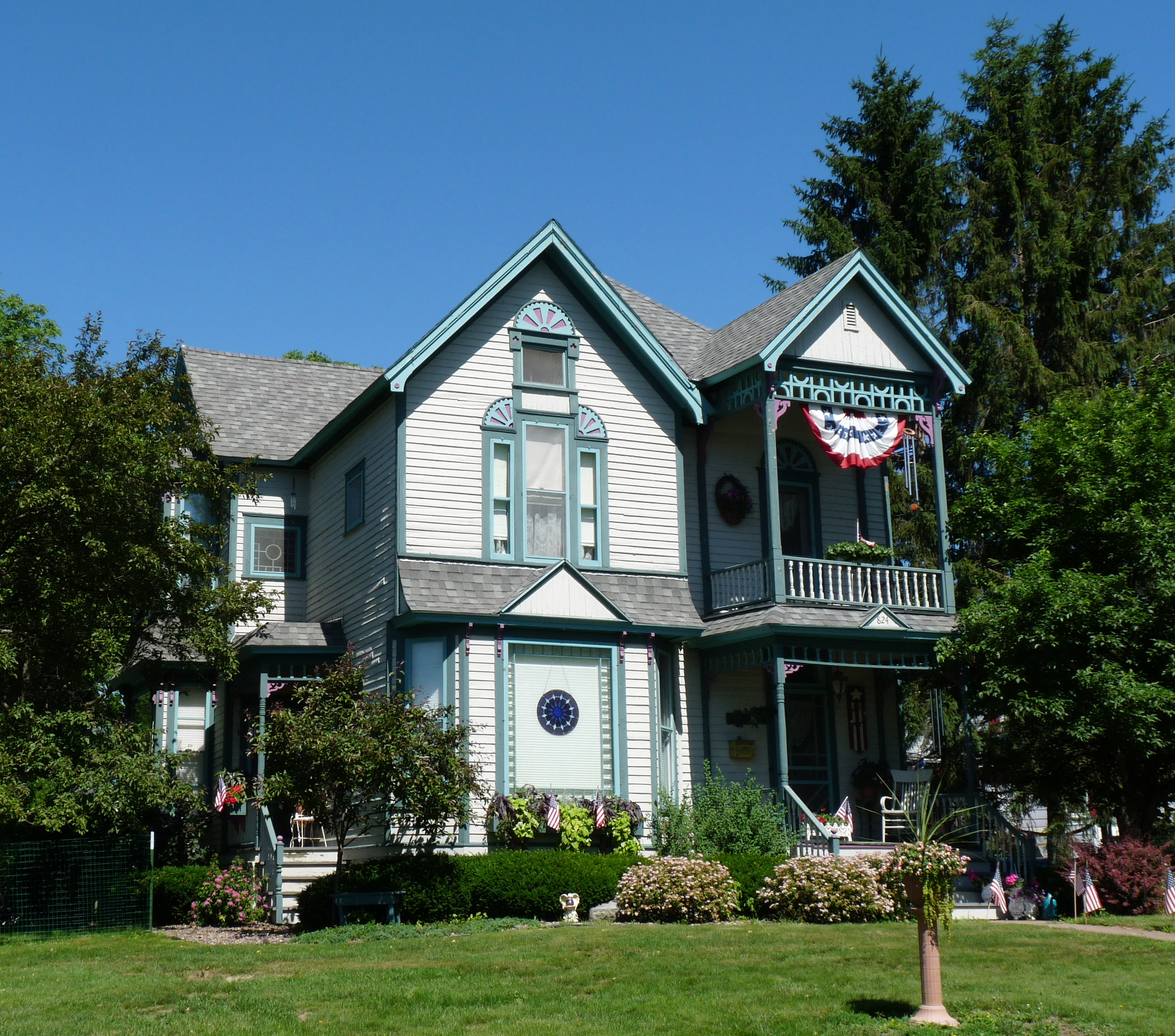 The John and Maria Hein House in Neillsville, Wisconsin was built in 1892 for Hein, operator of two barrel factories and a store. The Queen Anne-styled house is now on the National Register of Historic Places.